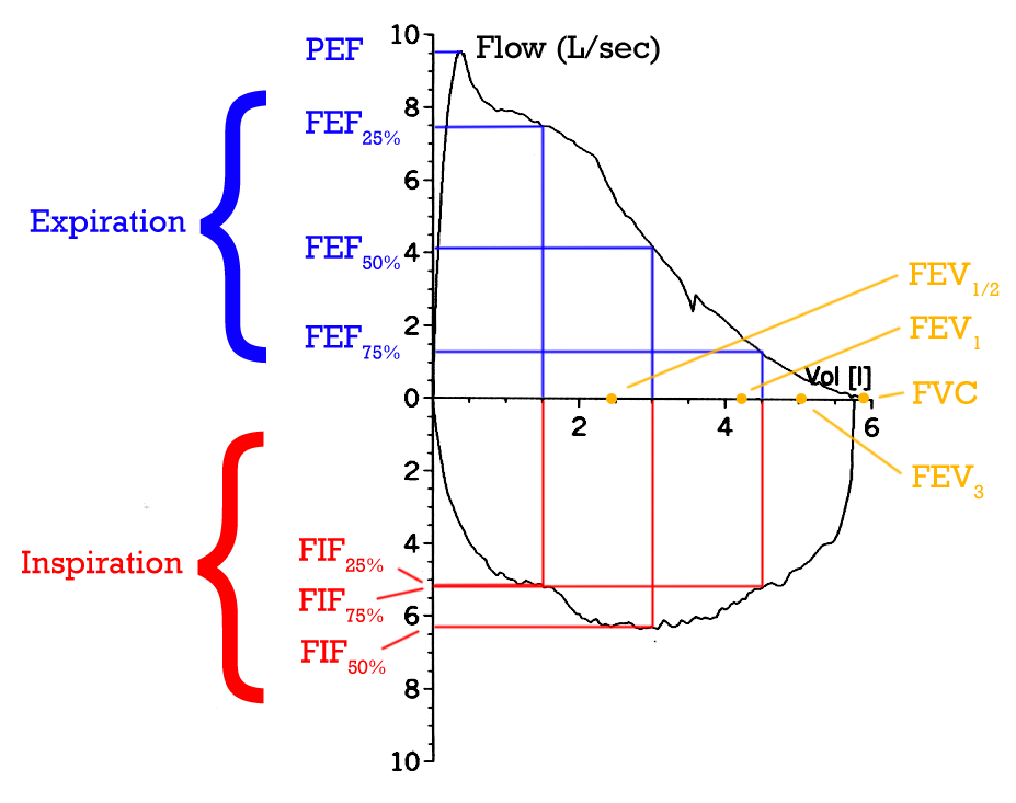 Flow-Volume Loop. Positive values represent expiration, negative values represent inspiration. The trace moves clockwise for expiration followed by inspiration. (Note the FEV1, FEVA1/2 and FEV3 values are arbitrary in this graph and just shown for illustrative purposes, they must be recorded as part of the experiment).